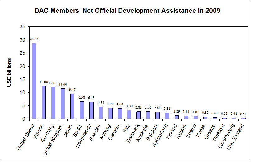 DAC Members' Net Official Development Assistance in 2009